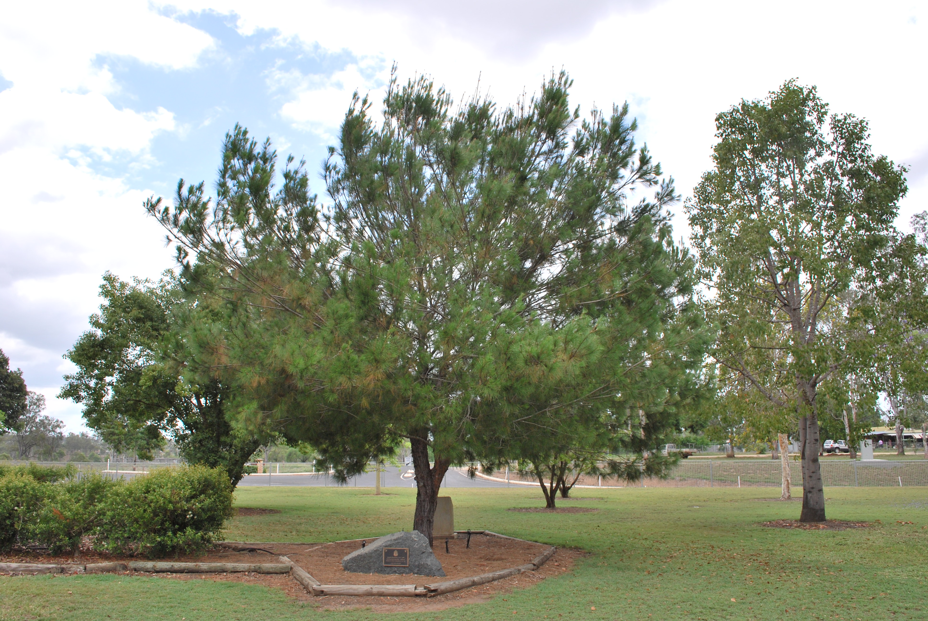 A tree in Mundubbera, Queensland, grown from a cutting from the Lone Pine at Gallipoli, Turkey.